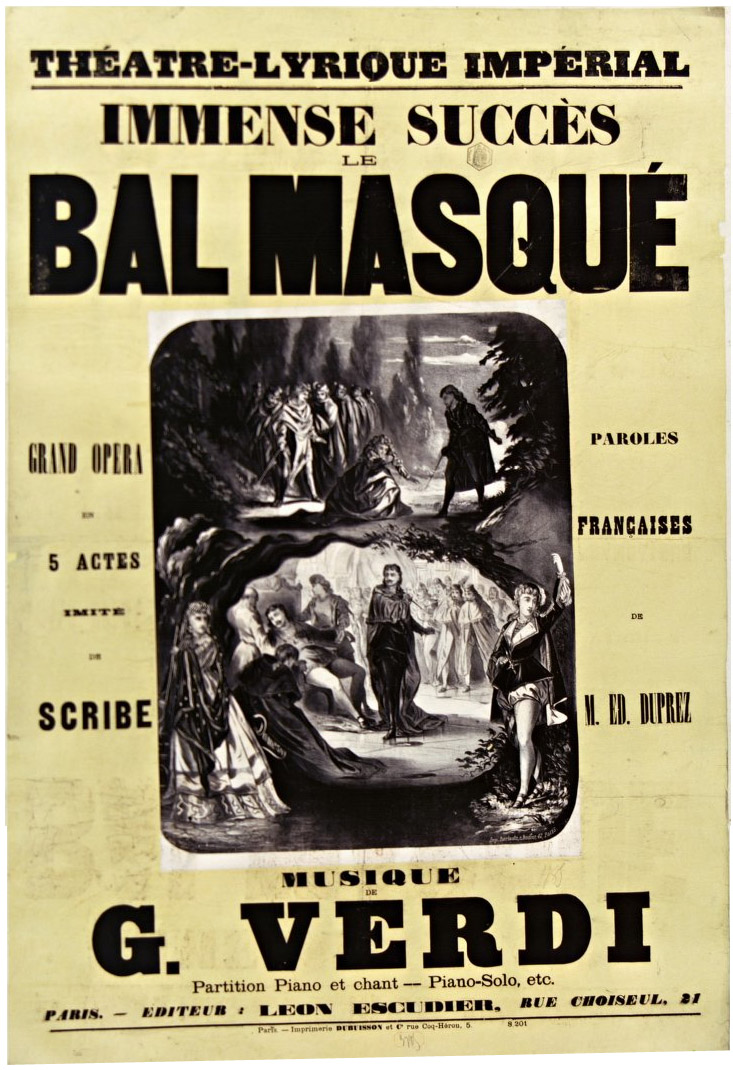 Cover of the vocal score of Le bal masqué, a French adaptation by Eugène Scribe and Edouard Duprez of Verdi's opera Un ballo in maschera, as performed at the Théâtre Lyrique in Paris beginning on 17 November 1869